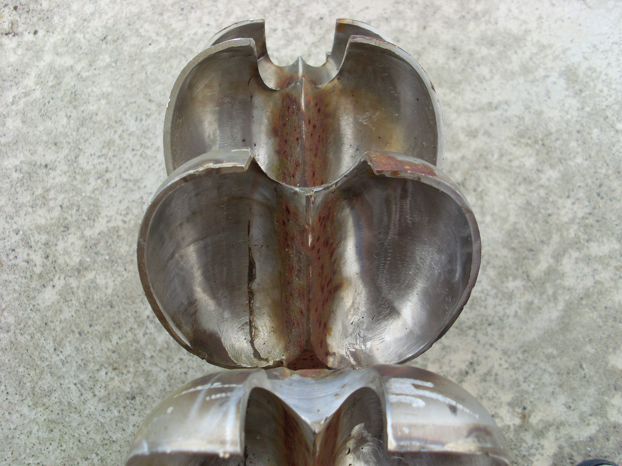 40kW pelton turbine - wheel